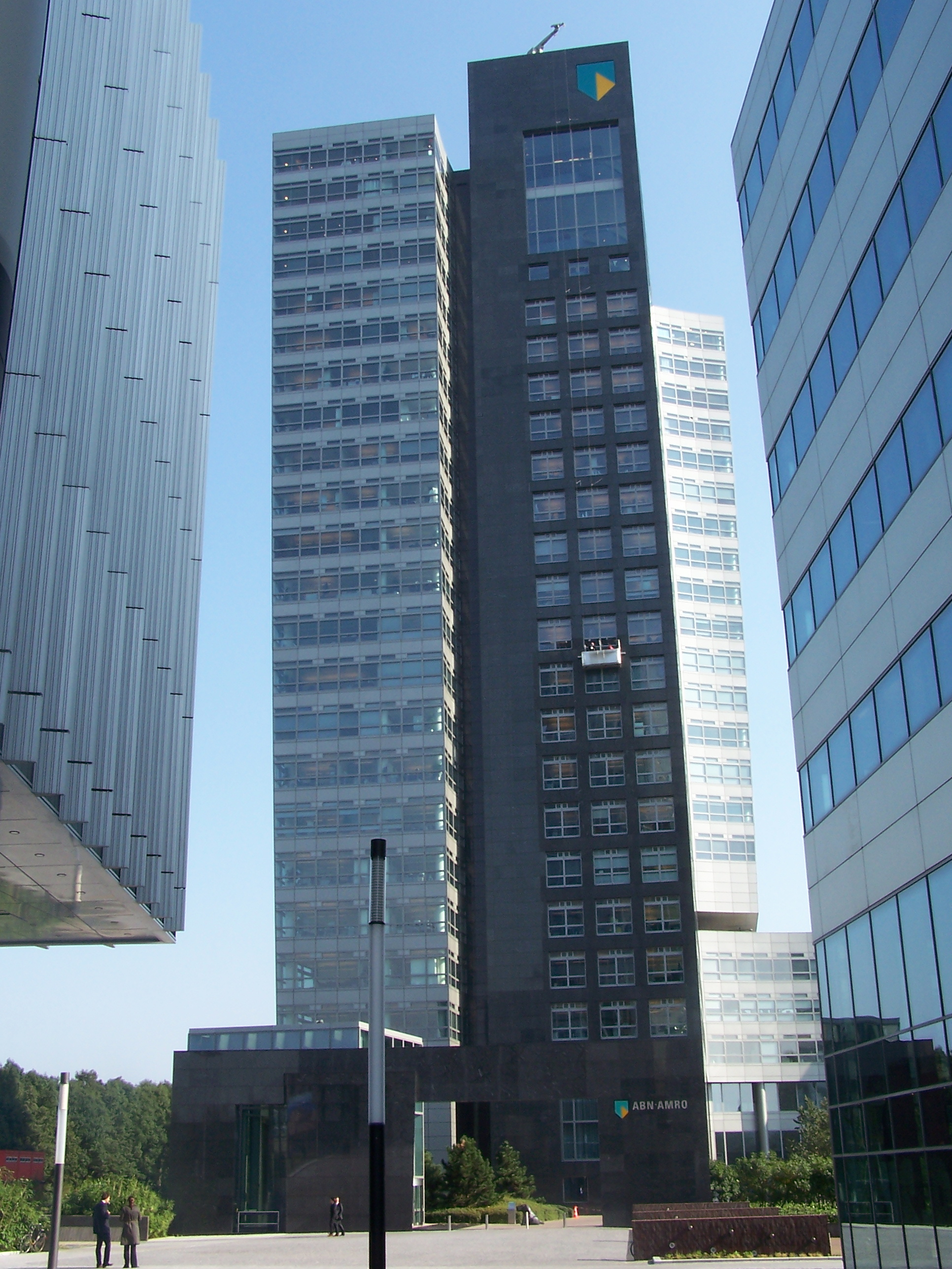 This picture shows the ABN AMRO headquarters in the Zuidas, Amsterdam. Author:Mig de Jong, september 2005